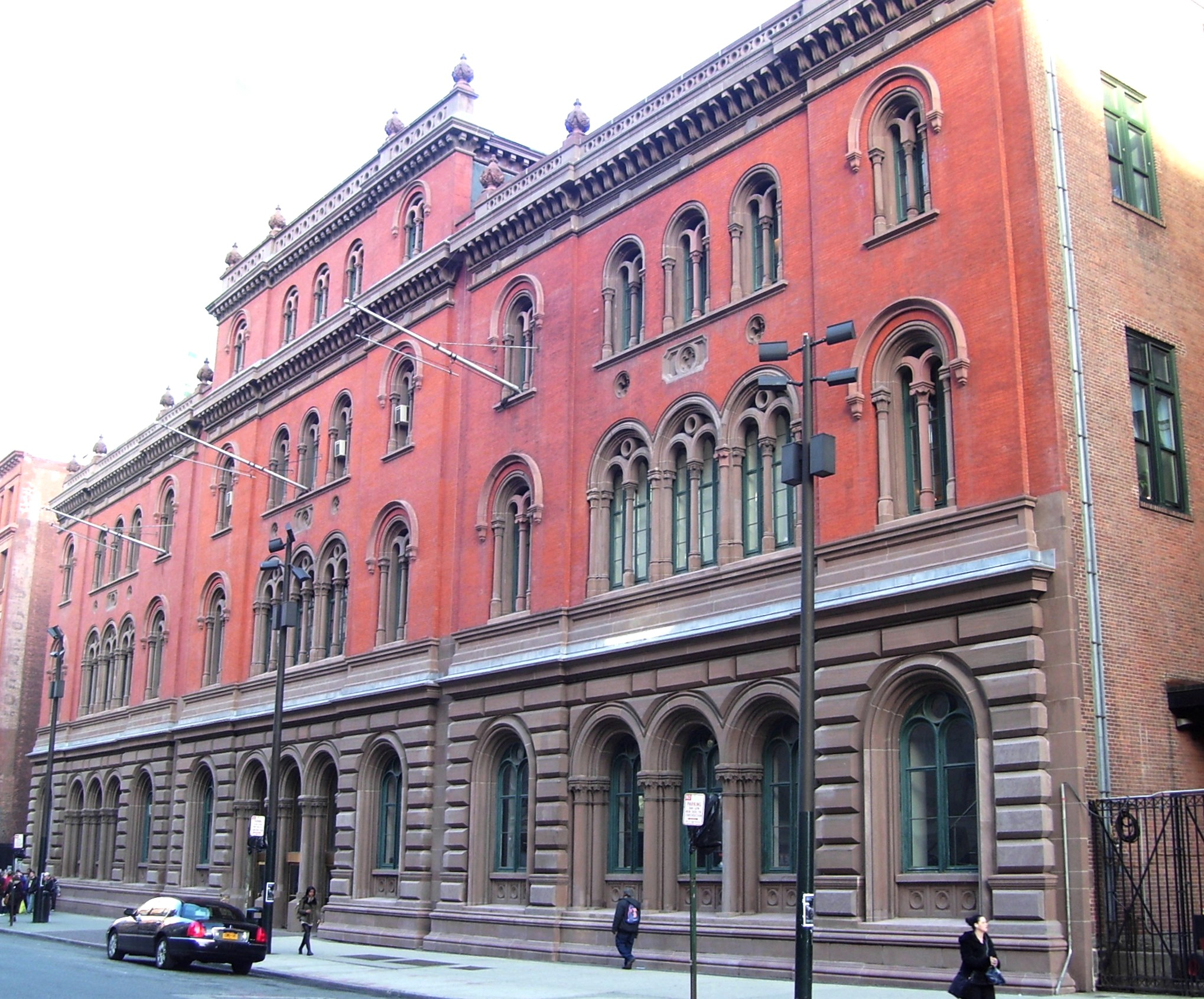 The Public Theatre (Astor Library) from the south.